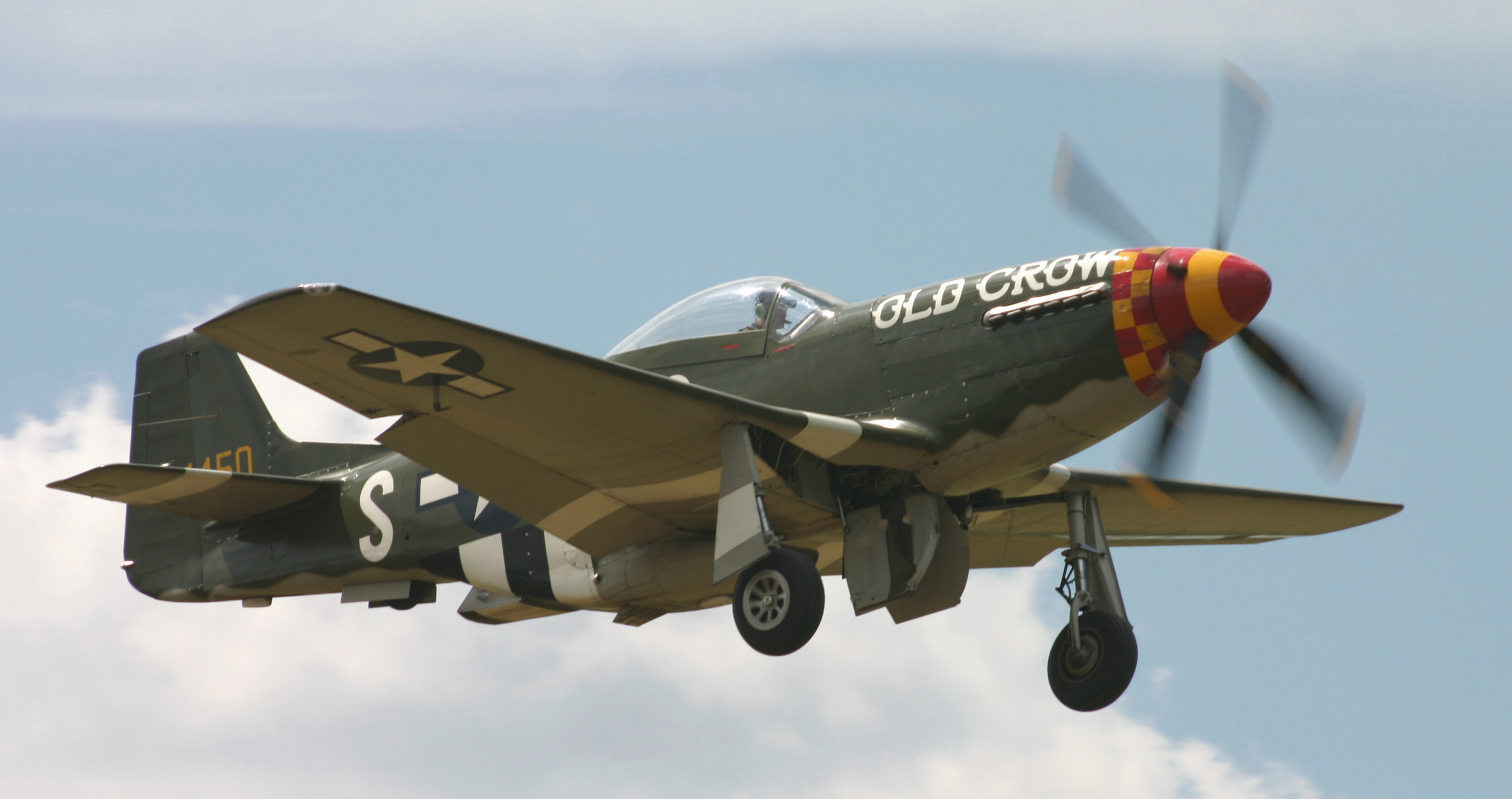 P-51 D Mustang during Góraszka Air Picnic 2007